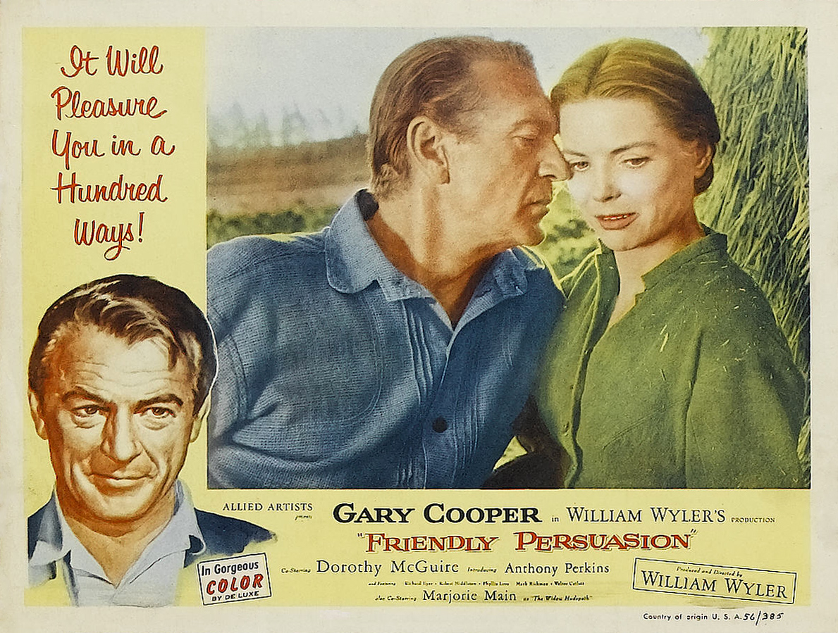 Film poster/lobby card for the 1956 film Friendly Persuasion